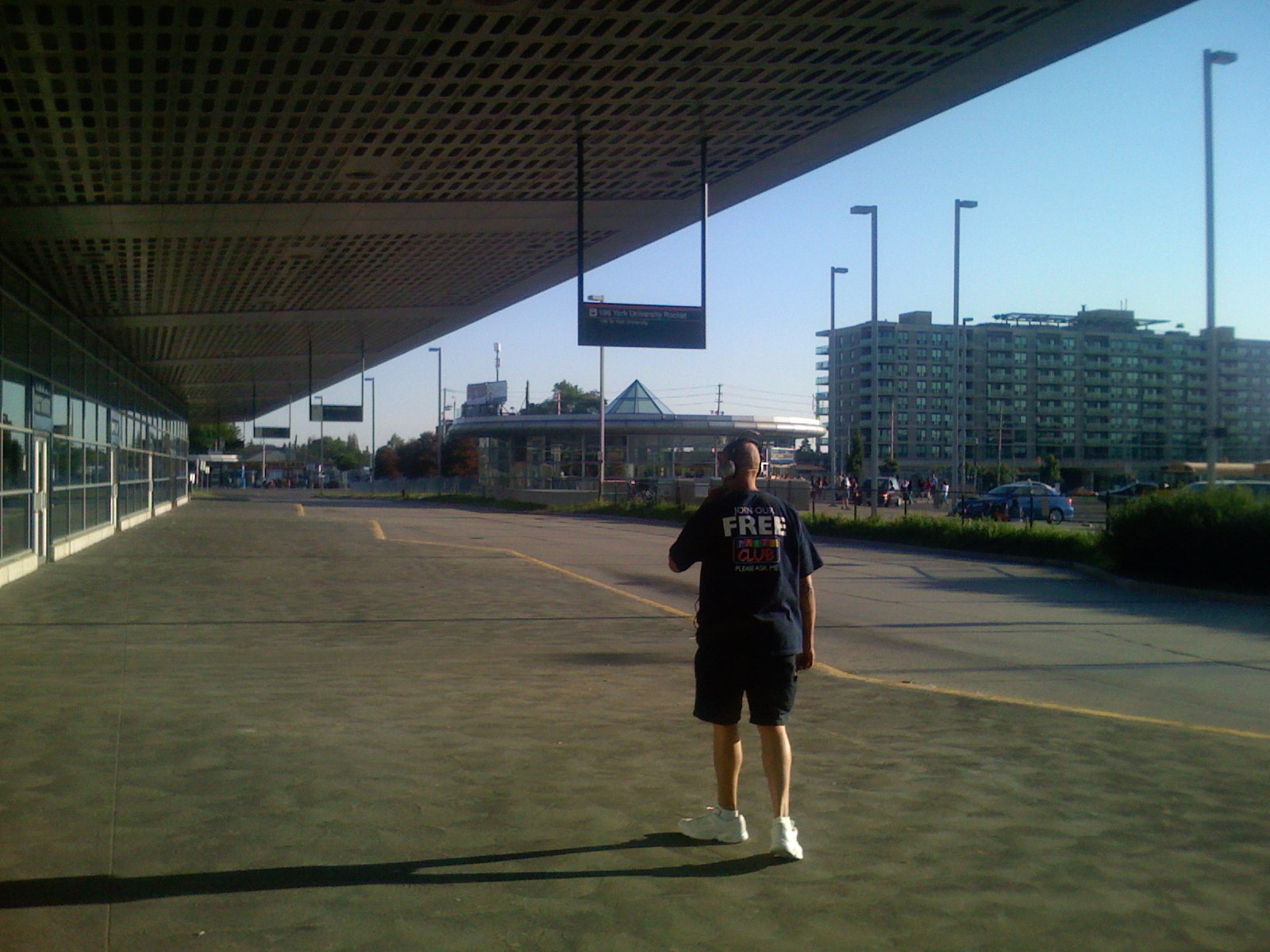 Downsview bus bays